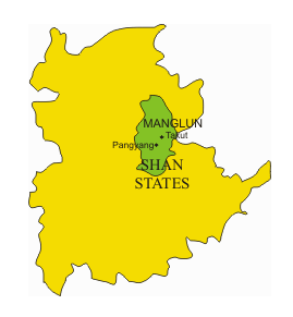 Mang Lon (Manglun) State map